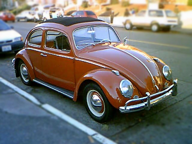 1961 Beetle (approx) in Seattle with sunroof in restored condition... Headlights have clear covers.